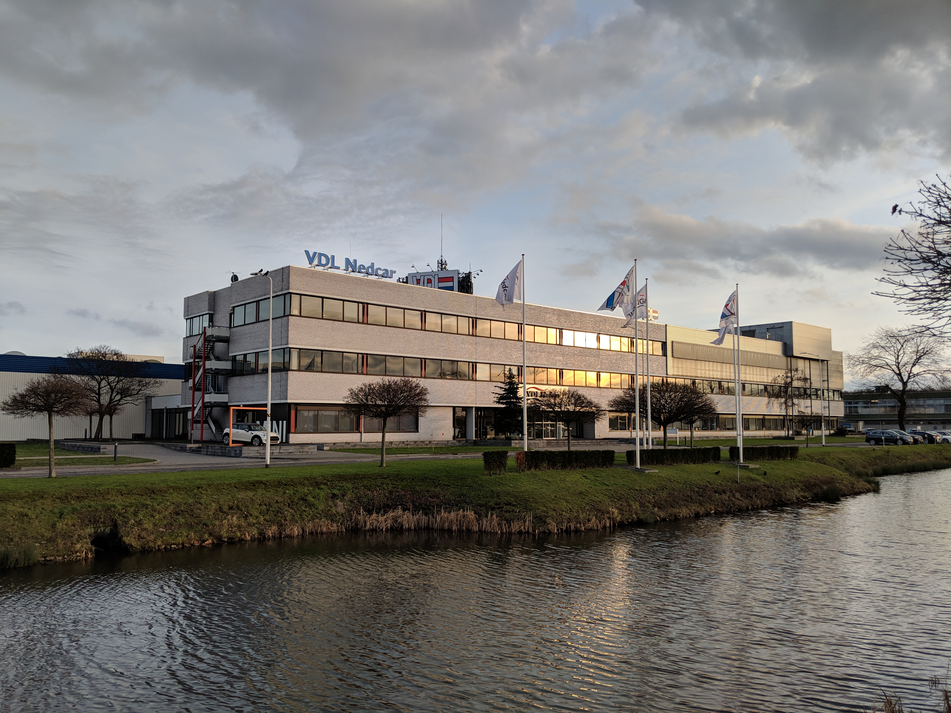 Front office of VDL Nedcar factory.